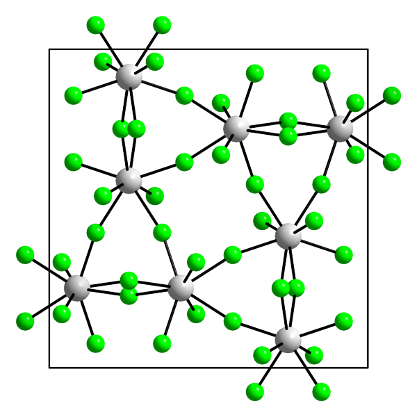 Unit cell of beta-UF5. Created using Diamond 3. Crystal data: Ryan, R.R.;Penneman, R.A.;Asprey, L.B.;Paine, R.T. , Single-crystal X-ray study of beta-uranium pentafluoride. The eight coordination of U